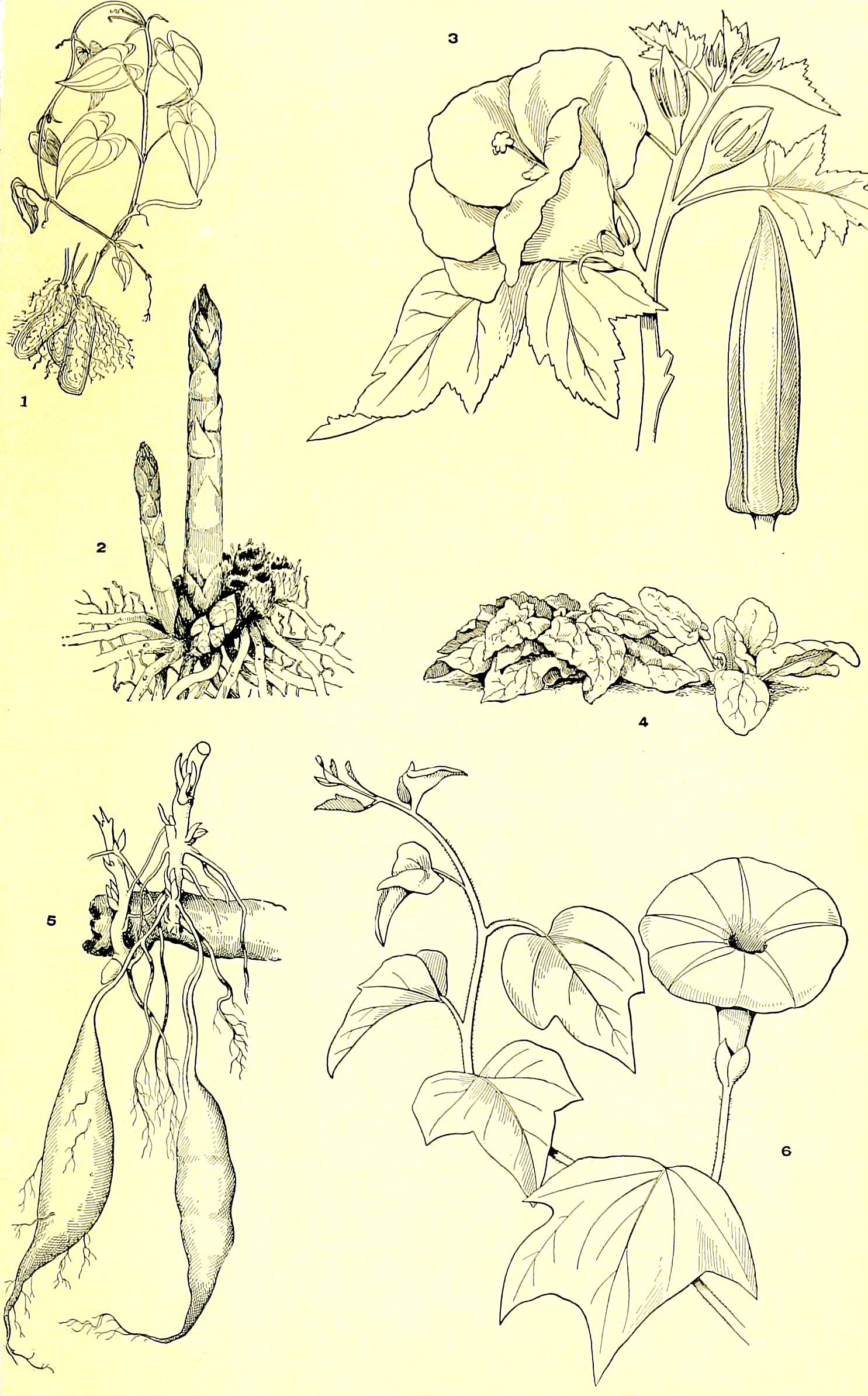 Botanical drawings of the yam and four relatives: asparagus, okra, spinach and sweet potato.